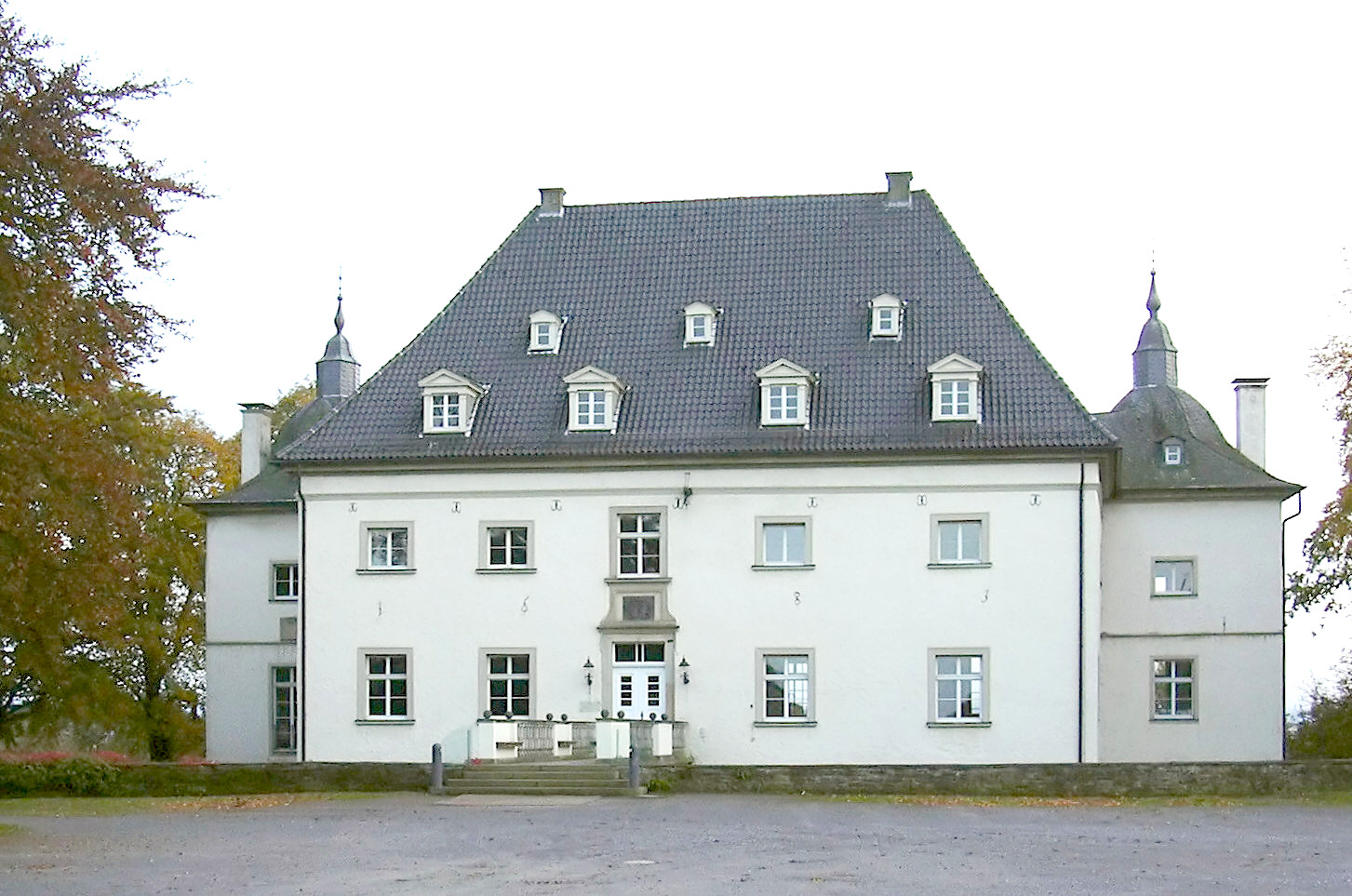 Haus Opherdicke seen from north.